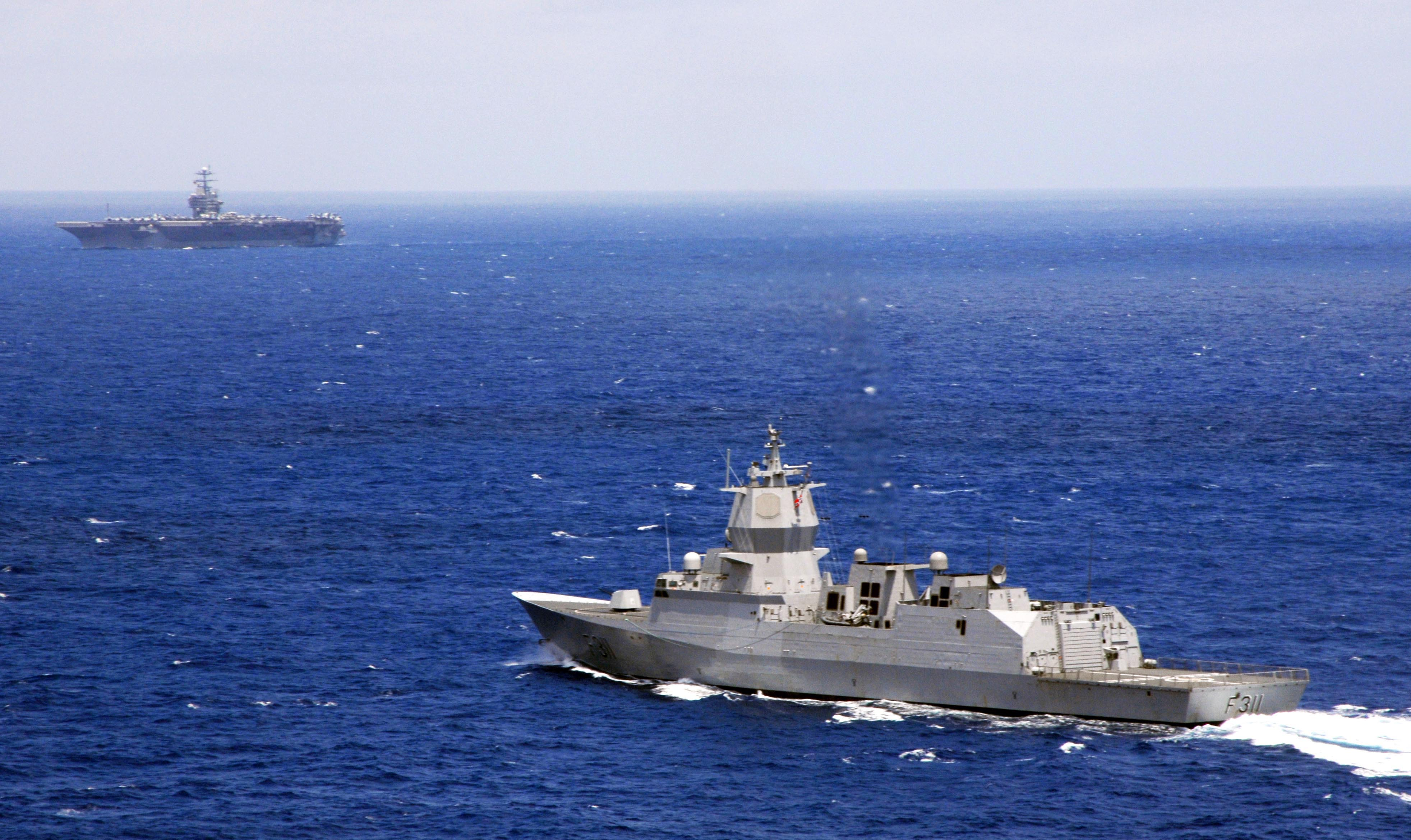 The Royal Norwegian Navy frigate KNM Roald Amundsen (F311) moves to get in formation with the U.S. Navy aircraft carrier USS Harry S. Truman (CVN-75) in the Atlantic Ocean on 7 May 2009. USS Harry S. Truman was underway conducting Tailored Ships Training Availability and Final Evaluation Phase.